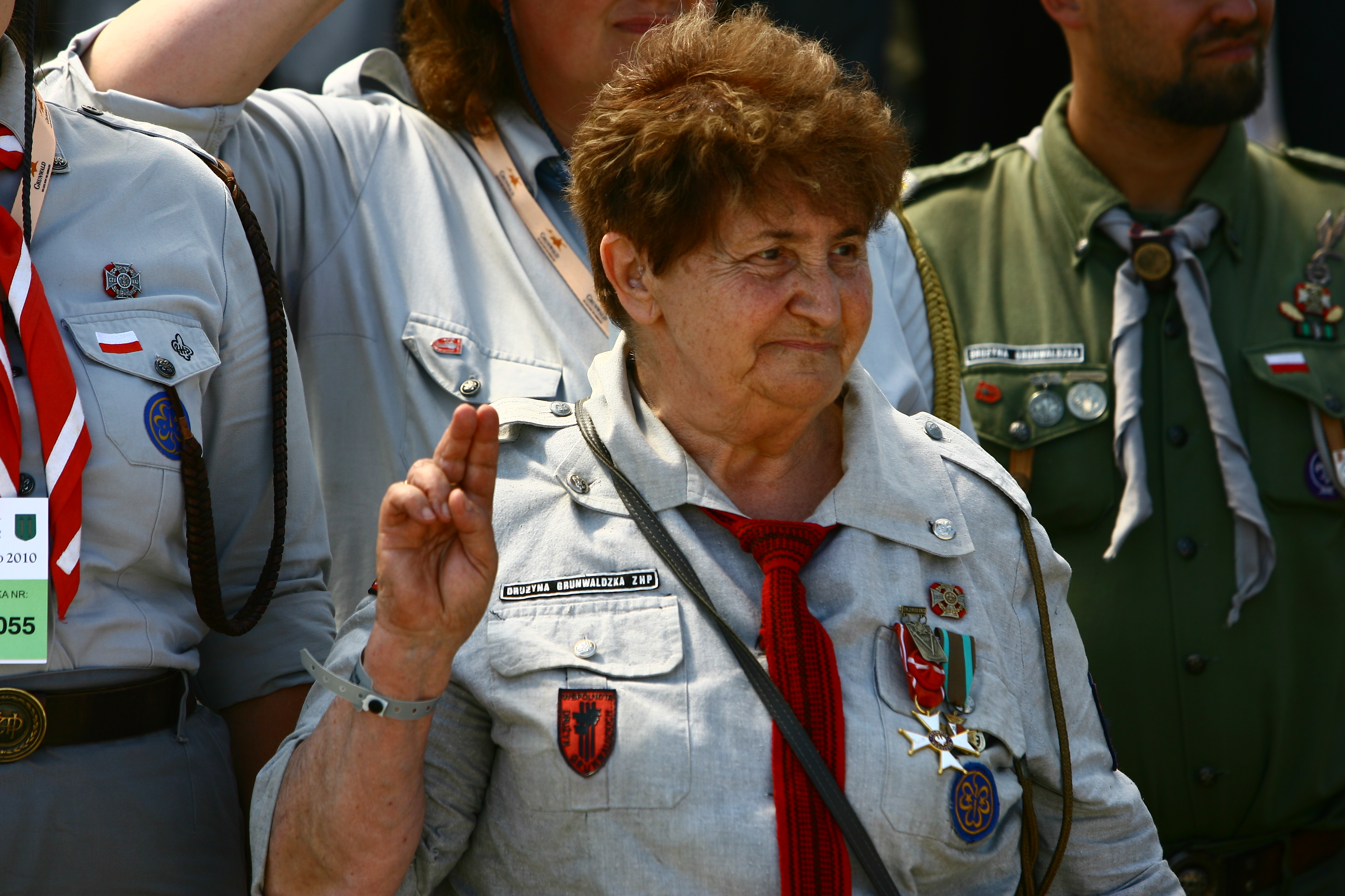 600th anniversary of the Battle of Grunwald - Barbara Bogdańska-Pawłowska (scoutmaster)